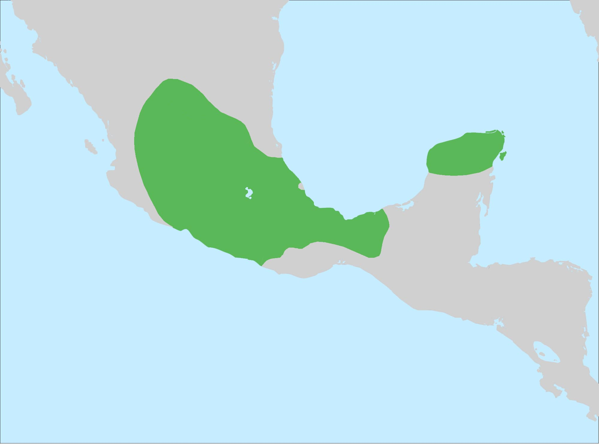 Approximate area of Toltec influence in 950